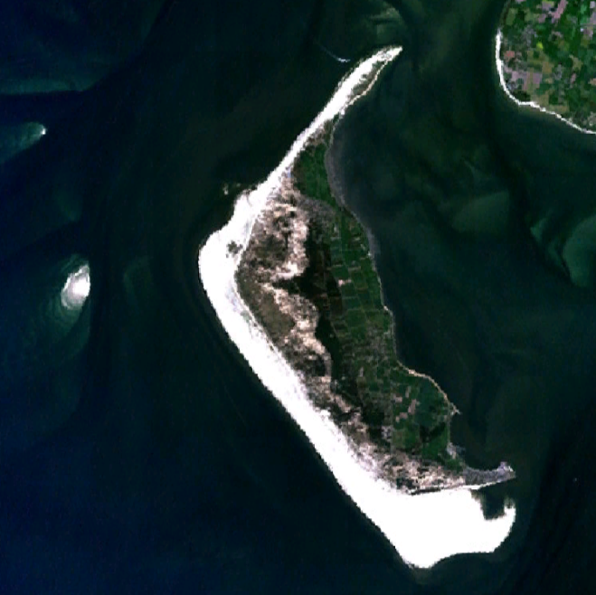 NASA World Wind Screen Shot of Amrum, Kniepsand and Jungnamensand at the North Frisian Coast of Germany